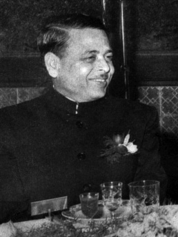 Tanka Prasad Acharya (left), PM of Nepal, visiting China.中文（中国大陆）: 欢迎尼泊尔王国首相 尼泊尔王国首相坦卡·普拉沙德·阿查理雅（左）于9月26日对我国进行友好访问。